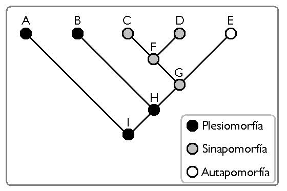 Little cladogram showing plesiomorphic, synapomorphic and autapomorphic characters.